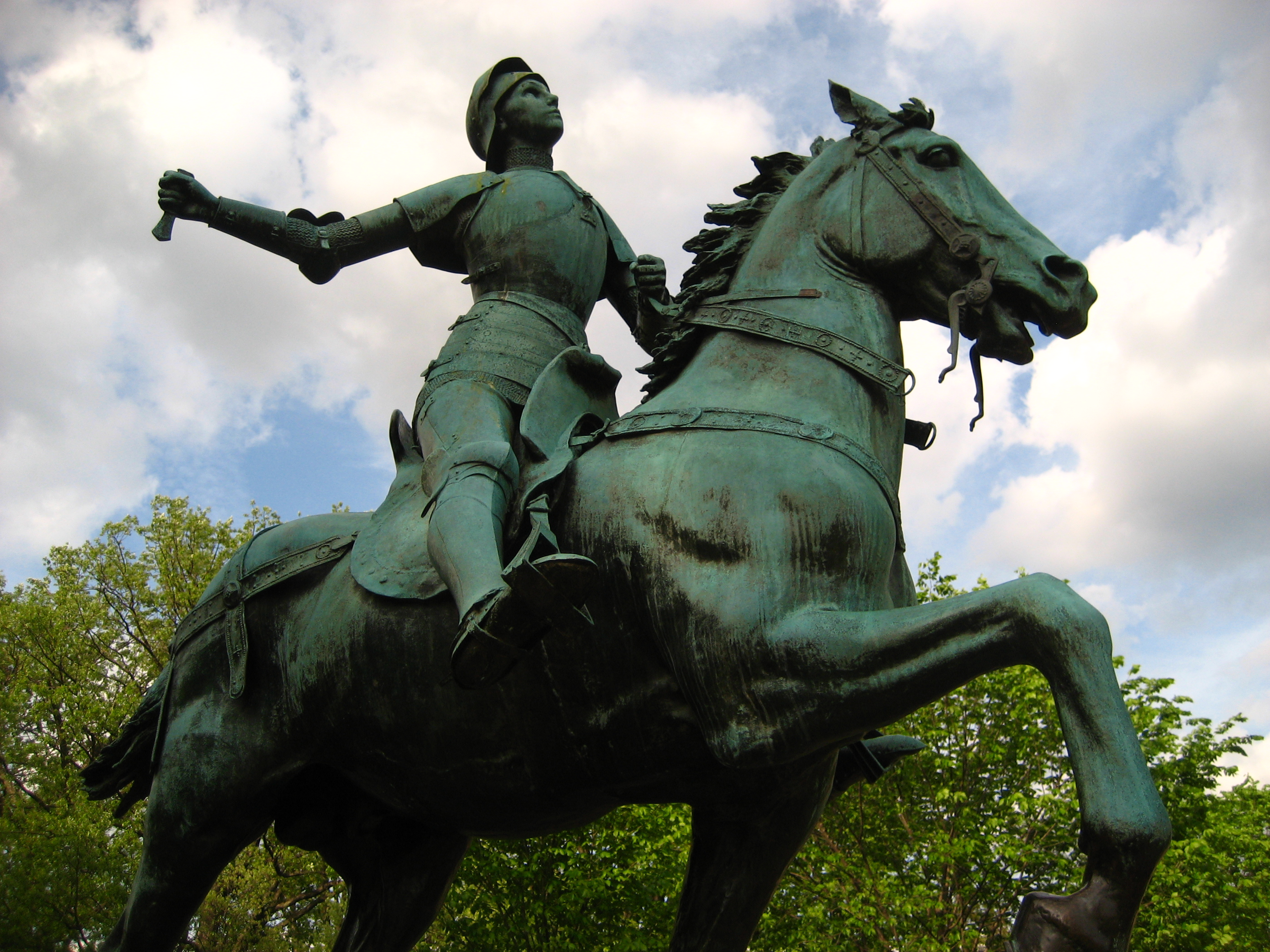 The Joan of Arc statue, the only equestrian statue of a woman in Washington, D.C., located at Meridian Hill Park in the Columbia Heights neighborhood.